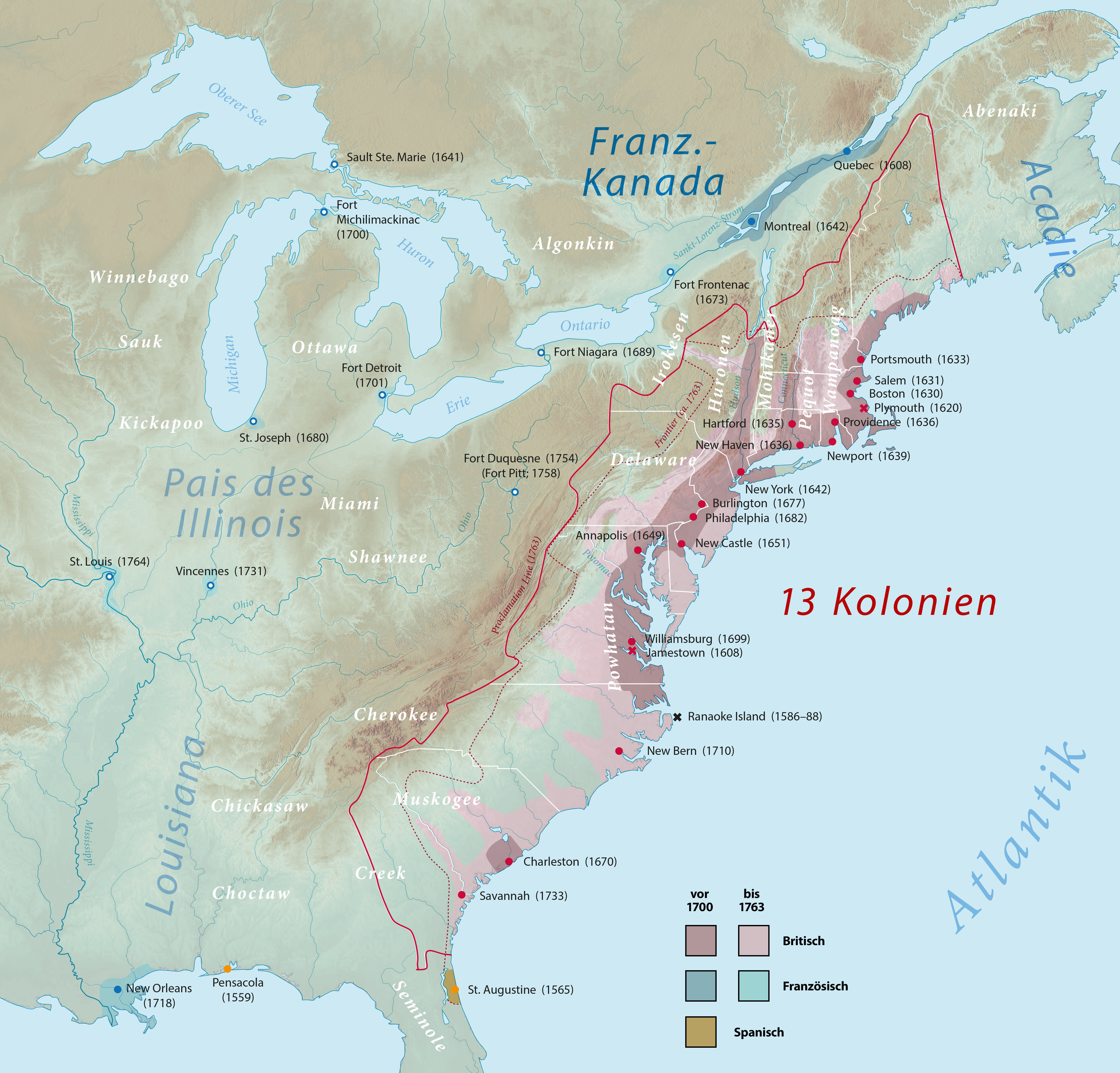 Settled area and settlement boundary in the Thirteen Colonies in North America 1700/1763.